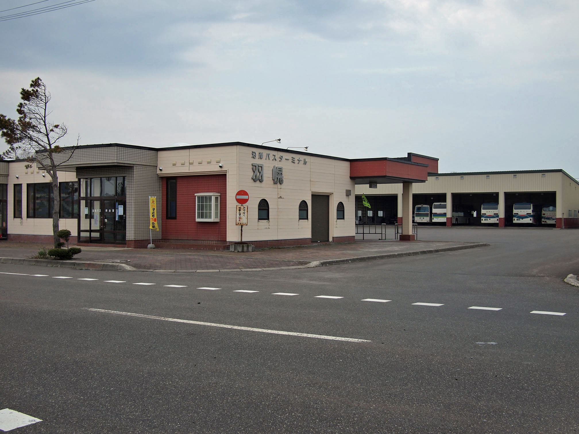 Engan Bus Haboro terminal, Haboro, Hokkaido, Japan